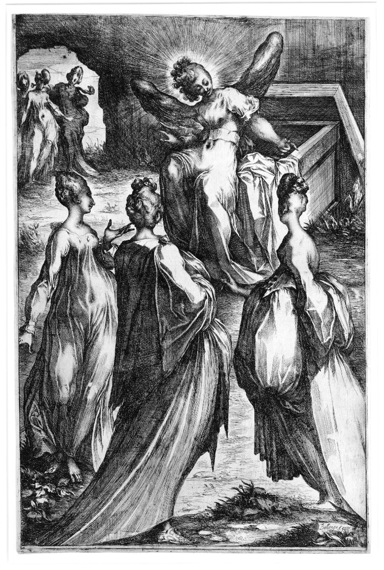 The Holy Women at the Sepulchre, with the angel sitting on the open grave; the three women are also represented in the background. 1613/6 Etching with stipple Height: 447 millimetres Width: 297 millimetres